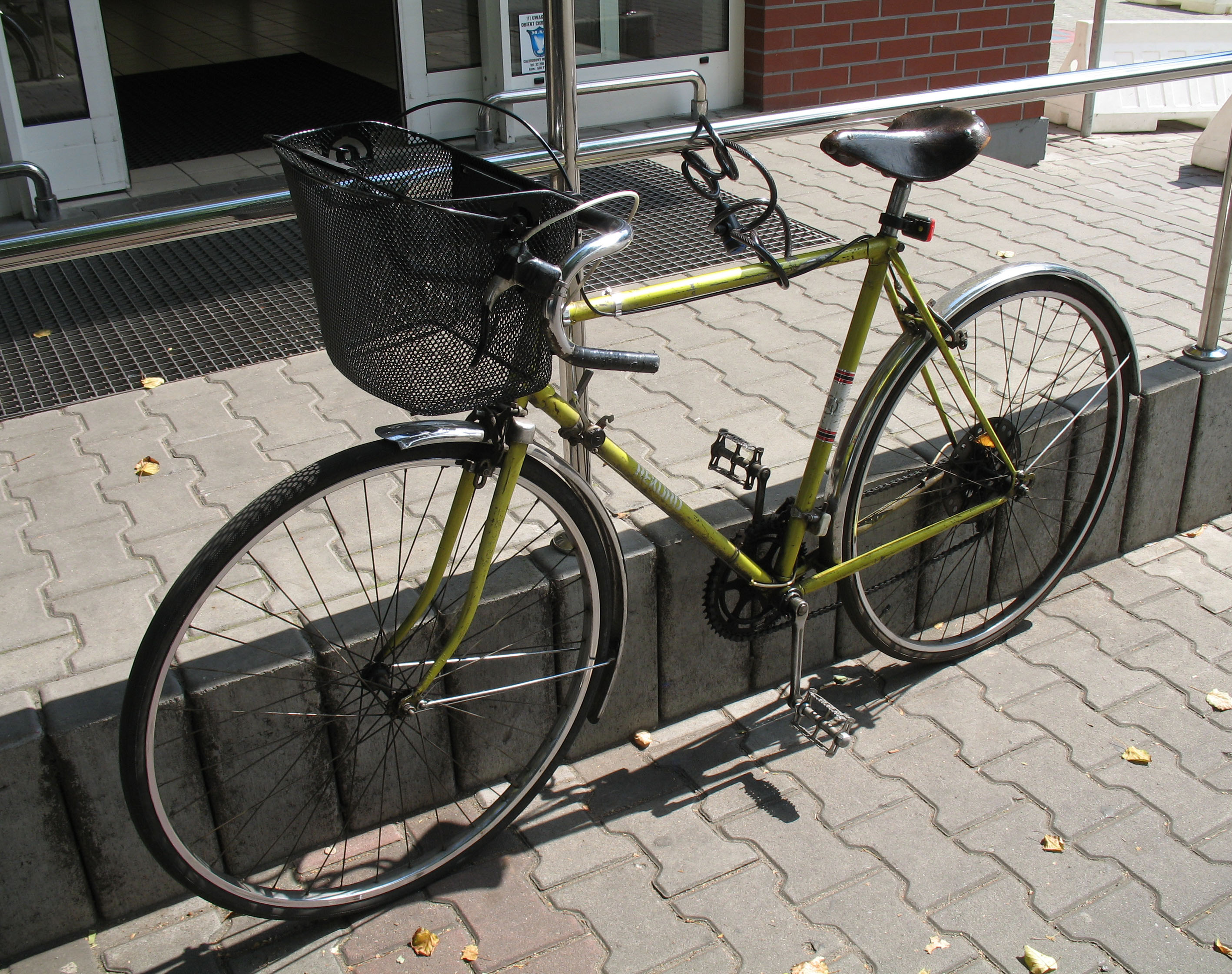 Romet Rekord bicycle in Kraków, Poland.